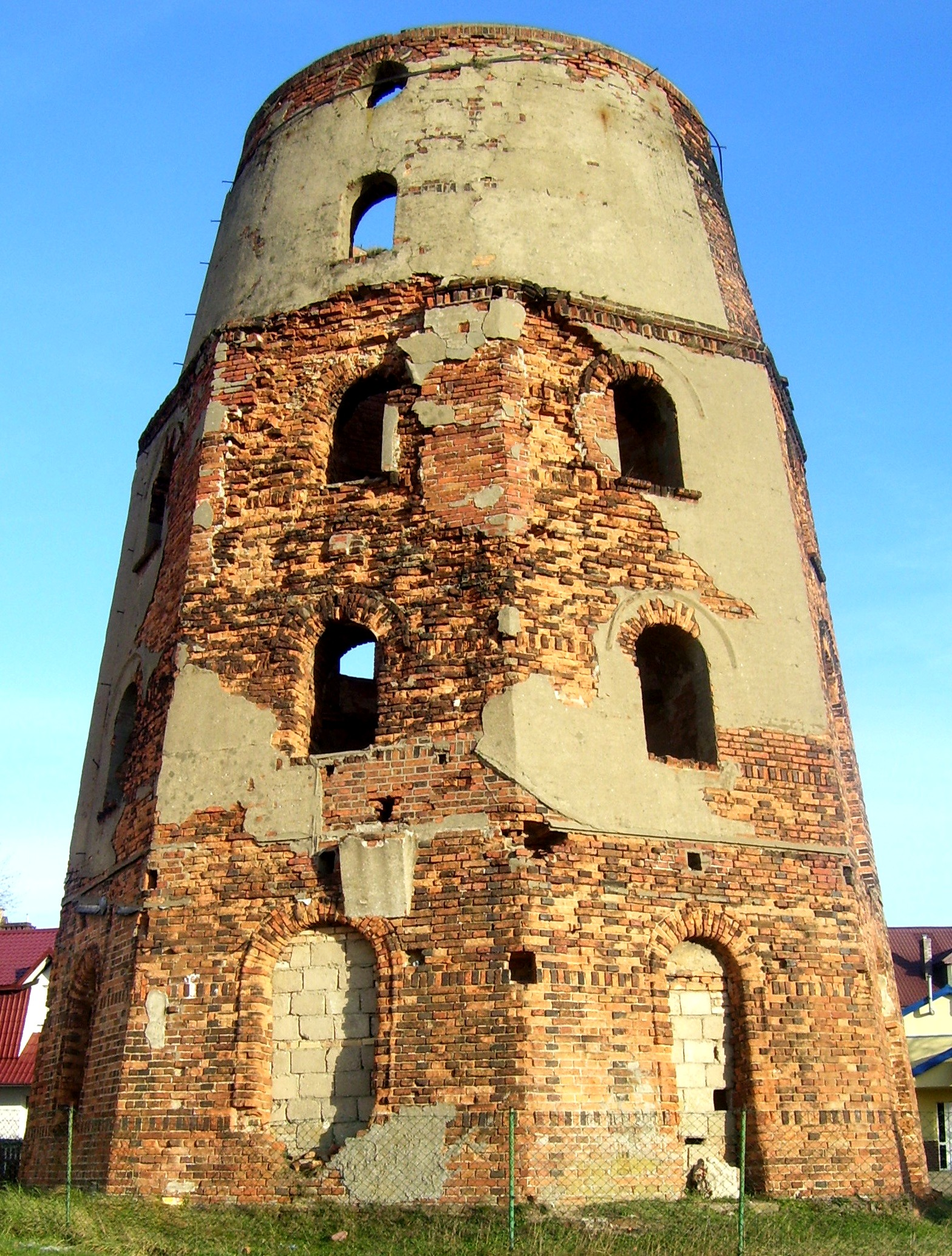 Polkowice, an old mill.